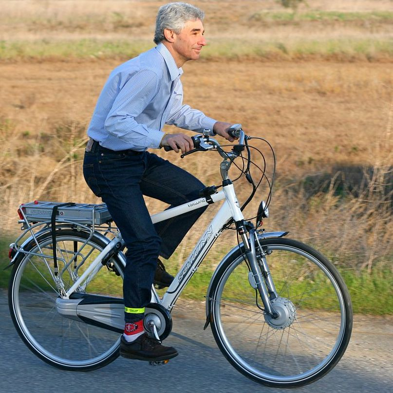 Barry is riding the Schwinn Tailwind electric bicycle around Shoreline Park in Mountain View, California. He brought a helmet but we both forgot about it he was having so much fun. I found out later that Barry was breaking California law -- helmet use is REQUIRED for those riding electric assist bikes in California.